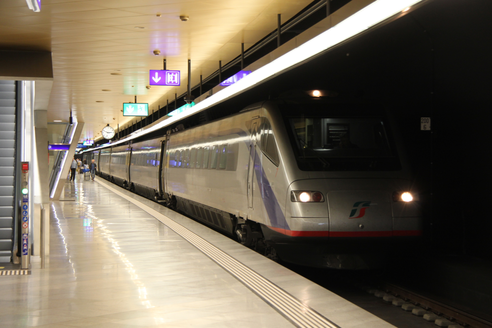 FS ETR 470 007 ready to leave Zürich HB as EuroCity 30021 to Milano Centrale.